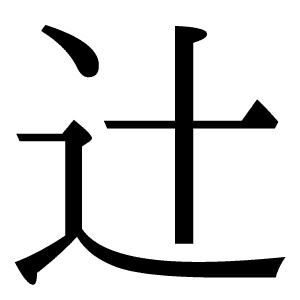 Tsuji (Hanji)